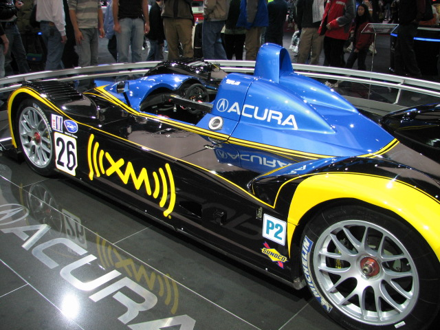 Photograph of Andretti Green Racing's Acura LMP at the 2007 Detroit Auto Show